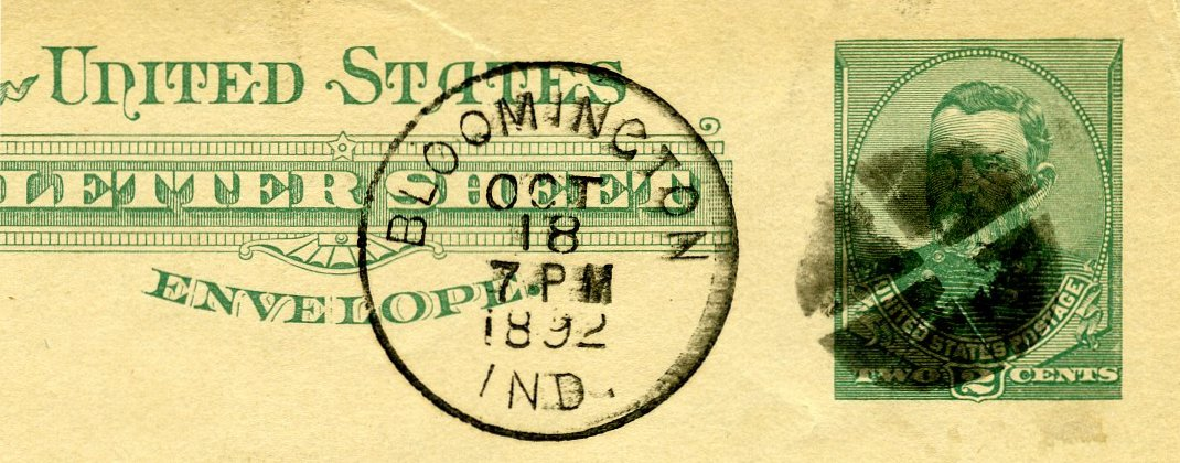 Killer obliteration cancel of a Grant letter sheet